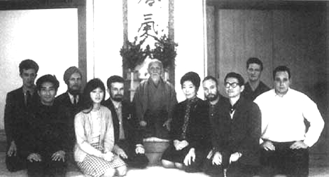 Morihei Ueshiba ( 'O-Sensei') founder of Aikido martial art with foreign students at birthday party at Tokyo Aikikai Hombo dojos, 1960s. From left to right: Alan Ruddock, Henry Kono, Per Winter, Joanne Willard, Joe Deisher, Morihei Ueshiba, Joanne Shimamoto, Kenneth Cottier, Unknown, Norman Miles and Terry Dobson.